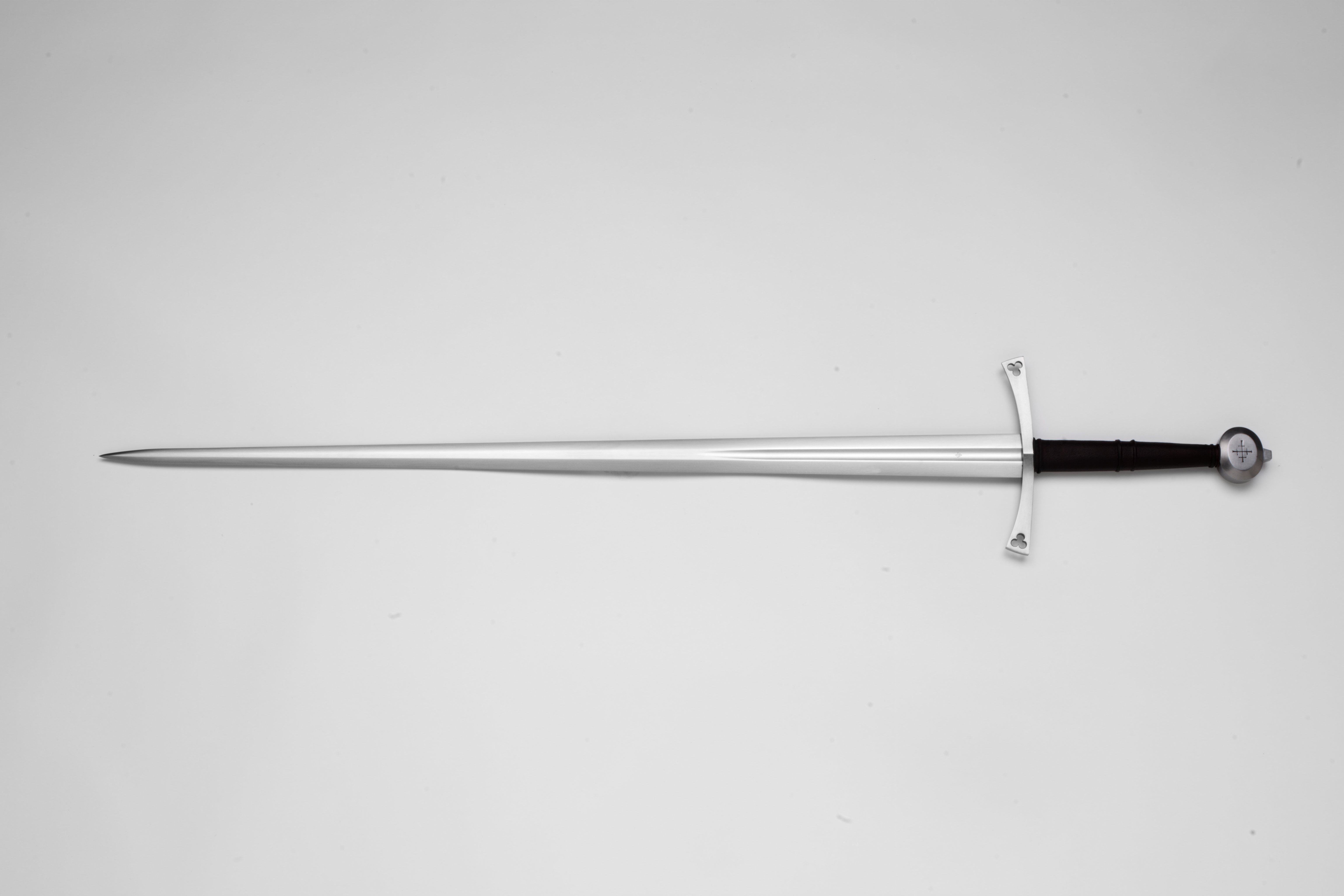 The Landgraf Limited Edition Medieval War Sword